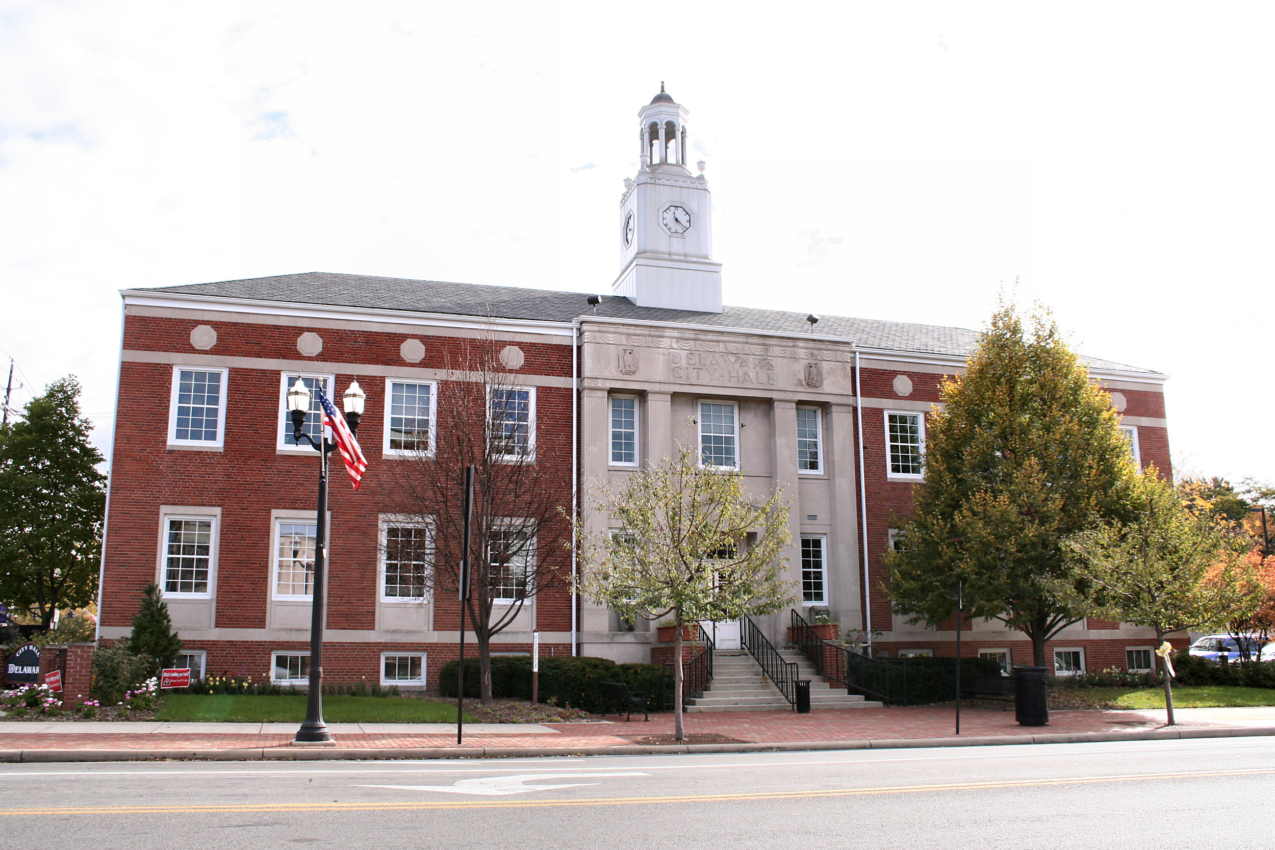 City Hall in Delaware, Ohio. Photo shot by Derek Jensen (Tysto), 2005-October-27